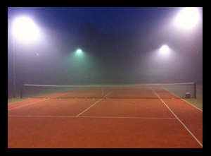 Wycombe House Lawn Tennis Club - The Courts at Night